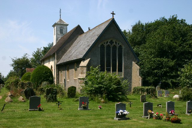 Church of St Thomas à Becket in Great Whelnetham, Suffolk, England. A Grade I listed medieval church.